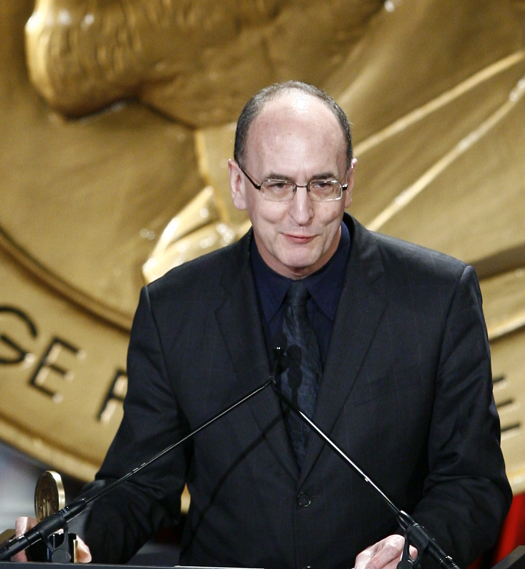 PHOTO CREDIT: ANDERS KRUSBERG / PEABODY AWARDS Peter Gelb 69th Annual Peabody Awards Luncheon Waldorf=Astoria Hotel New York, NY USA May 17, 2010